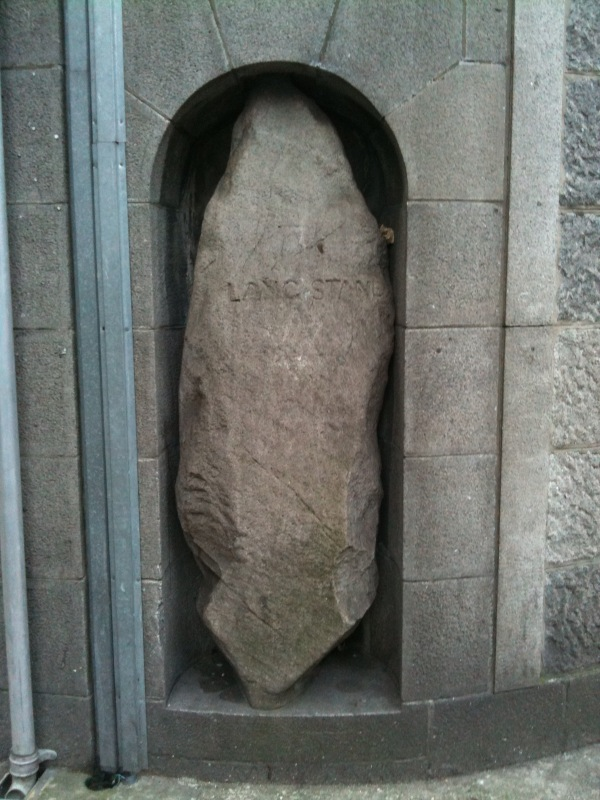 Image of the lang stane in Aberdeen, Scotland